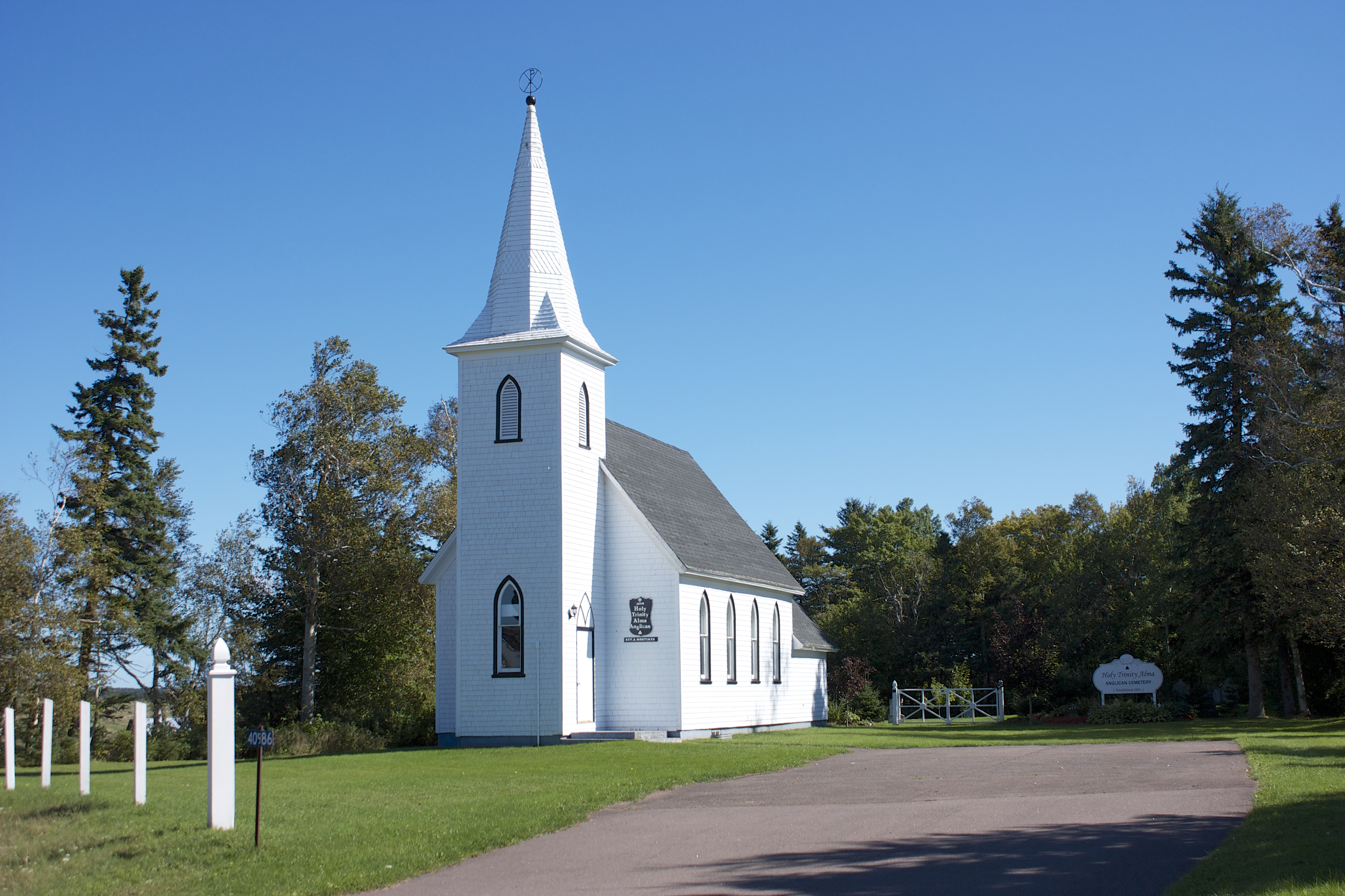 40986 Western Road - Route 2, Alma, Prince Edward Island, Canada